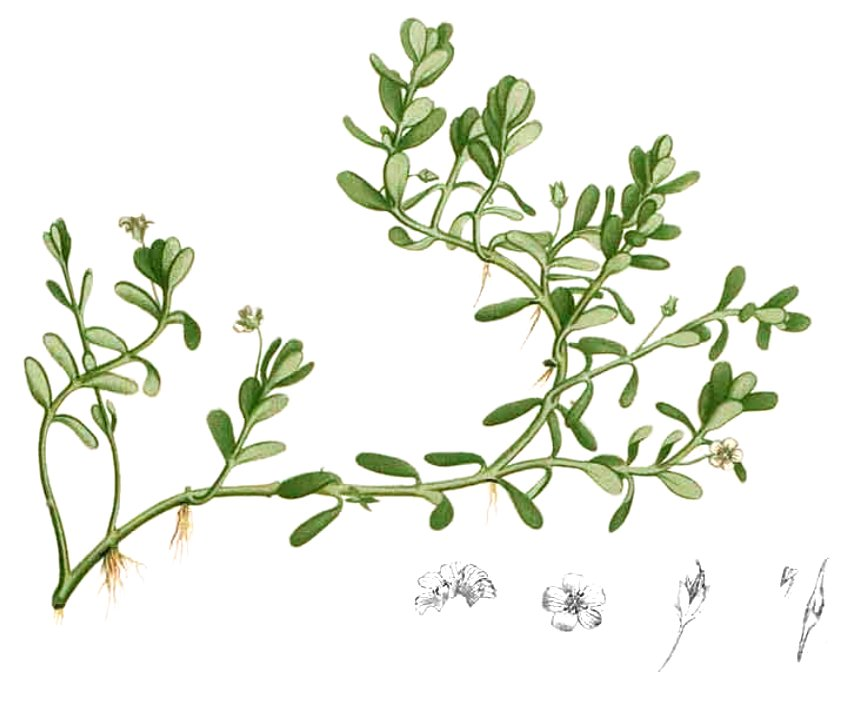 Plate from book